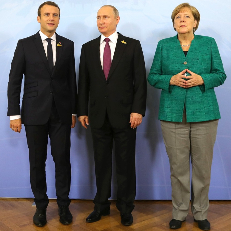 Russian President Vladimir Putin and German Chancellor Angela Merkel and French President Emmanuel Macron before a working breakfast.